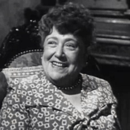 Florence Bates in Texas, Brooklyn and Heaven (cropped screenshot)